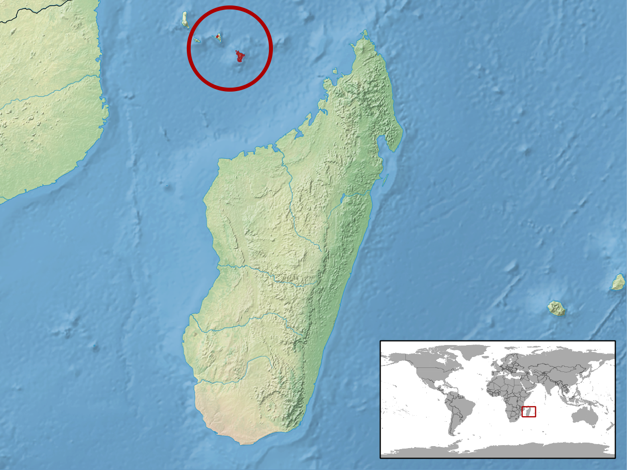 geographic distribution of Furcifer polleni (Native: Mayotte / Introduced: Comoros)